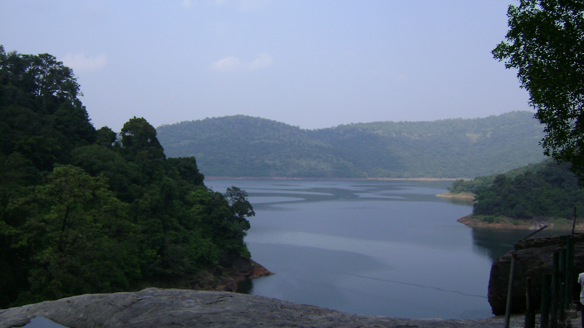 Papanasam reservoir viewed from the waterfall